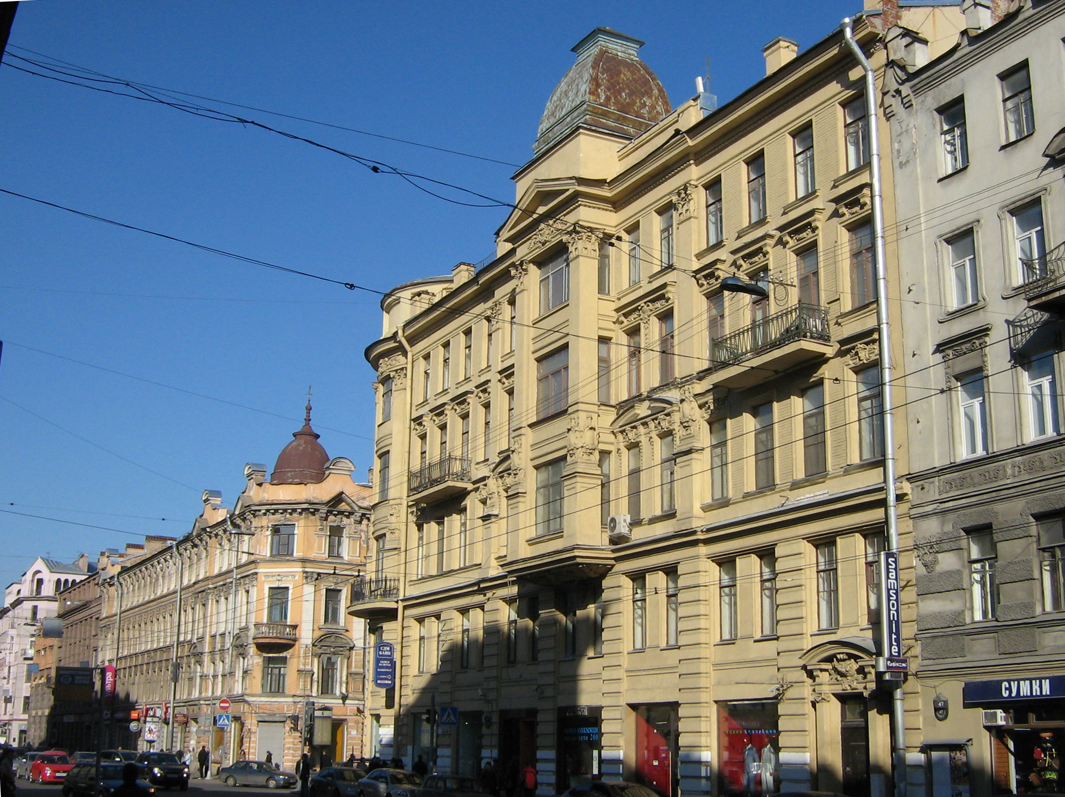 Bolshoy avenue (Petrograd side), 49, corner of Lenina street (Saint-Petersburg, Russia)